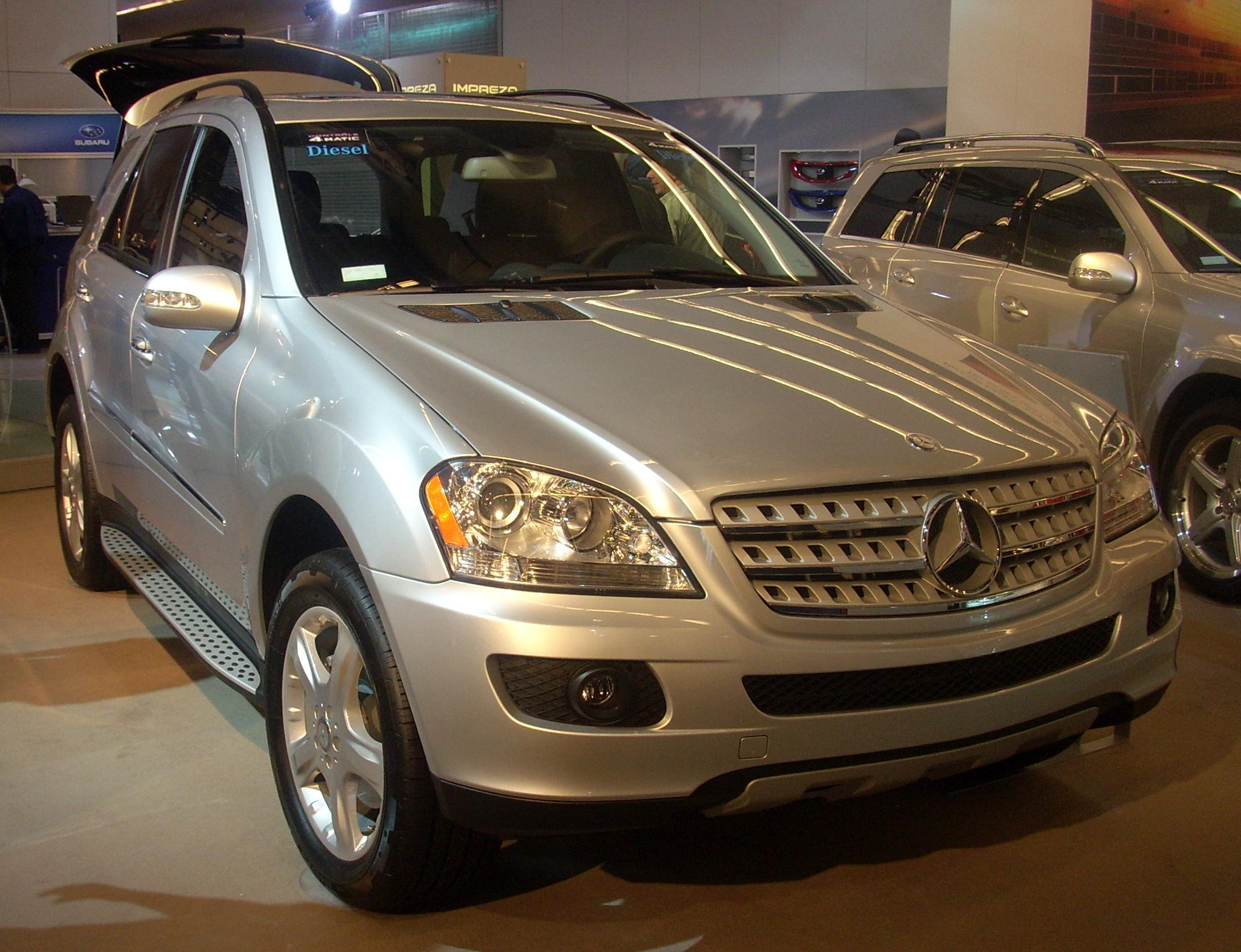 2008 Mercedes-Benz M-Class photographed at the Montreal Auto Show.